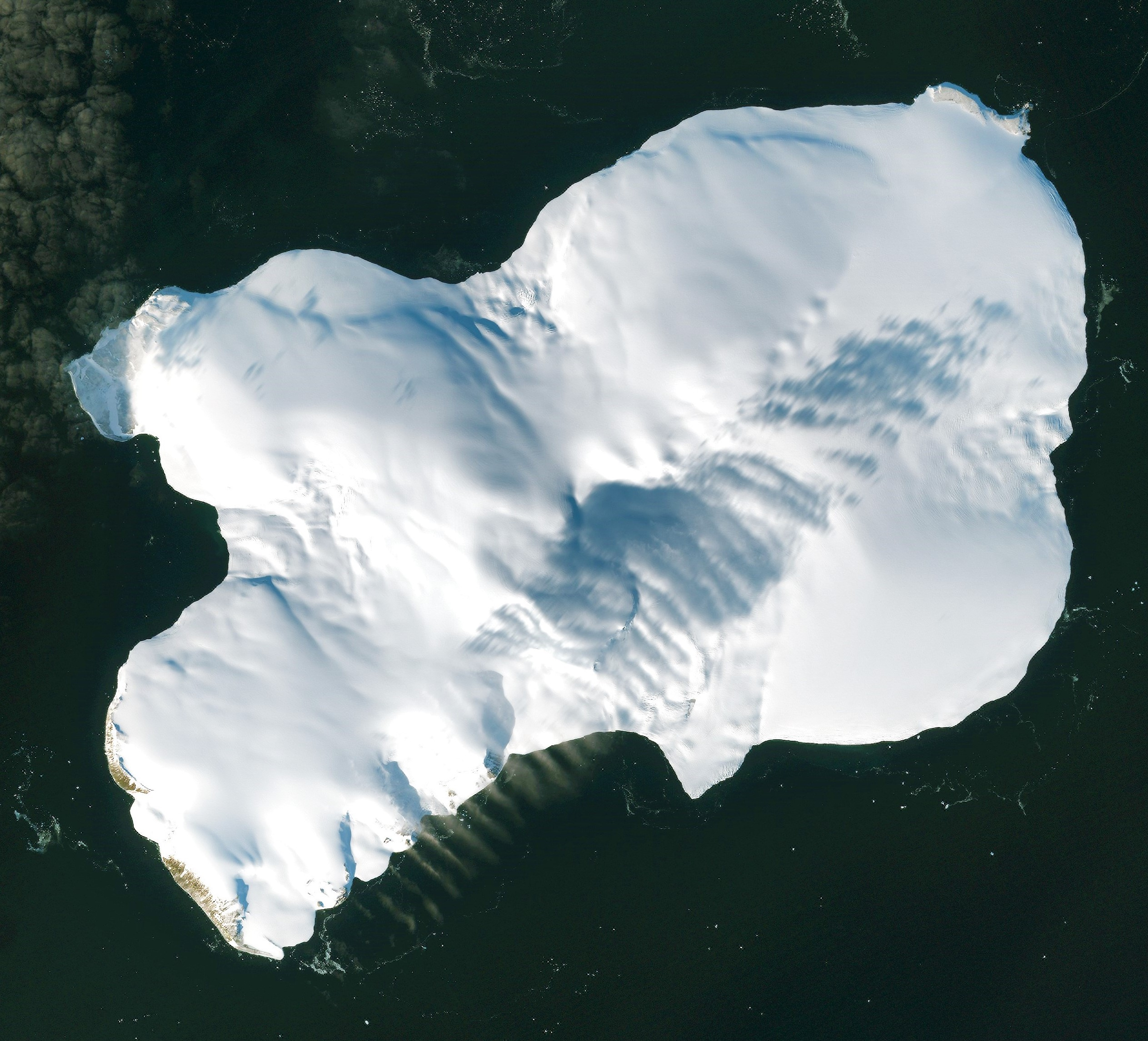 Rudolf Island, Franz Josef Land archipelago, Russia, Sentinel-2 satellite imagery, near natural colors, spatial resolution 10 m